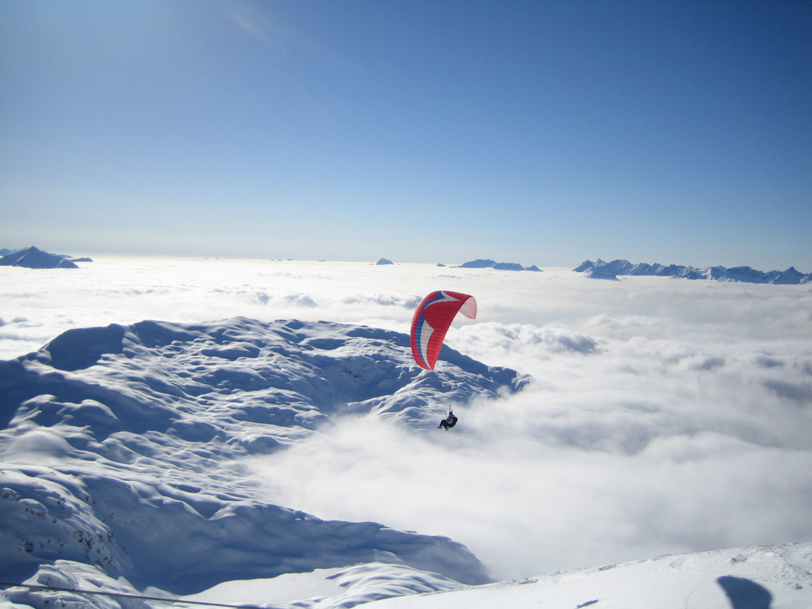 A paraglider taking off in Winter from Brevant, Chamonix, France. Feb 2005